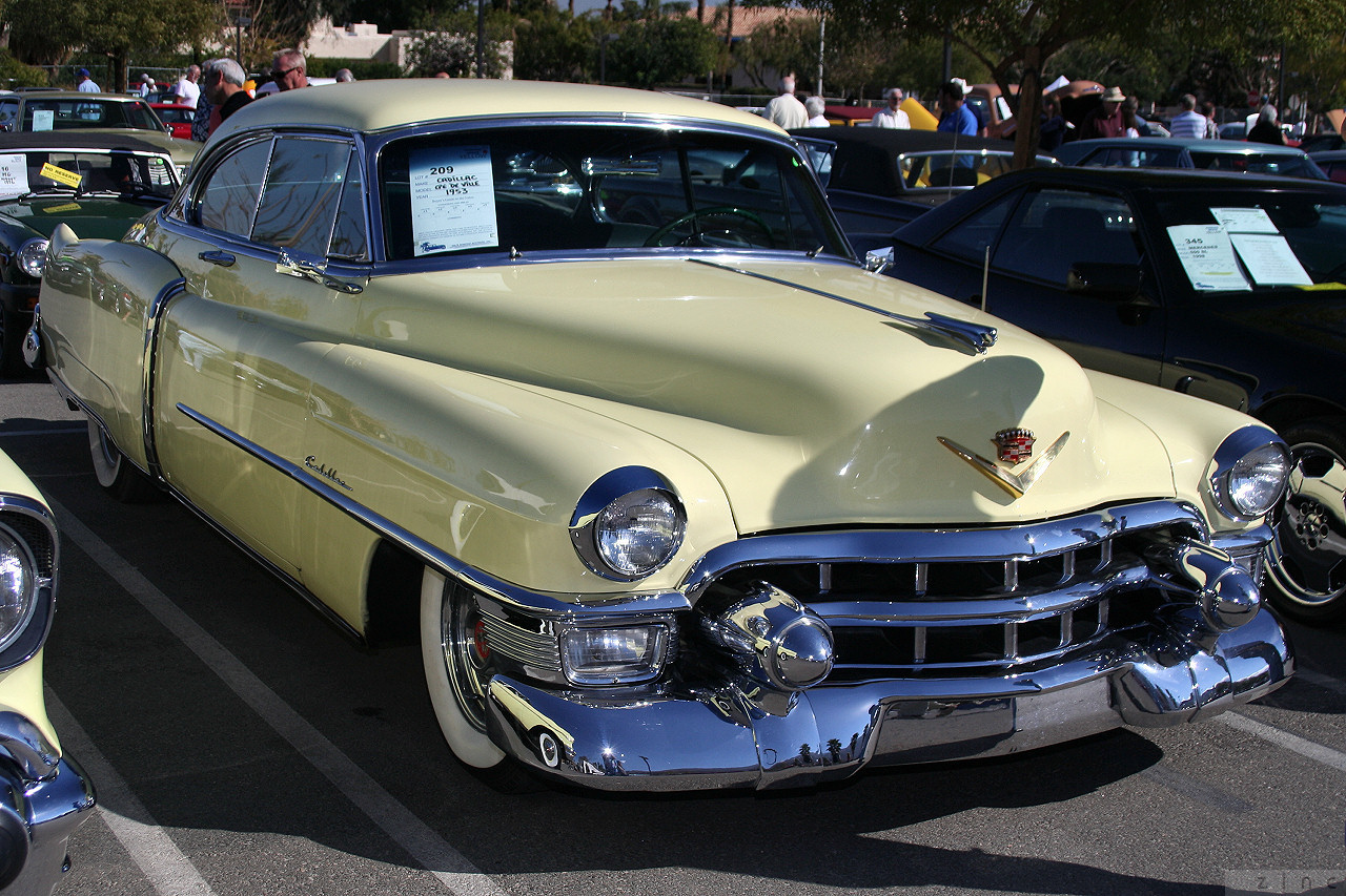 This is a picture of a 1953 Cadillac Coupe DeVille.